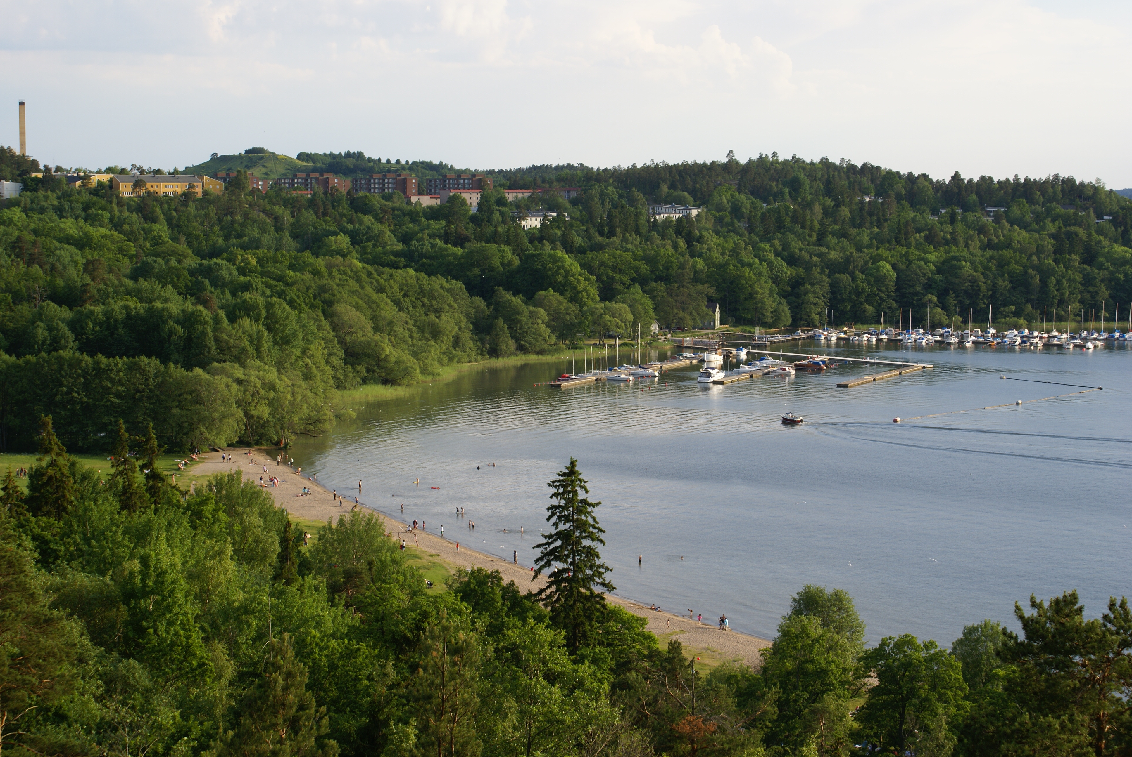 Sätrabadet in Sätra, southwest Stockholm